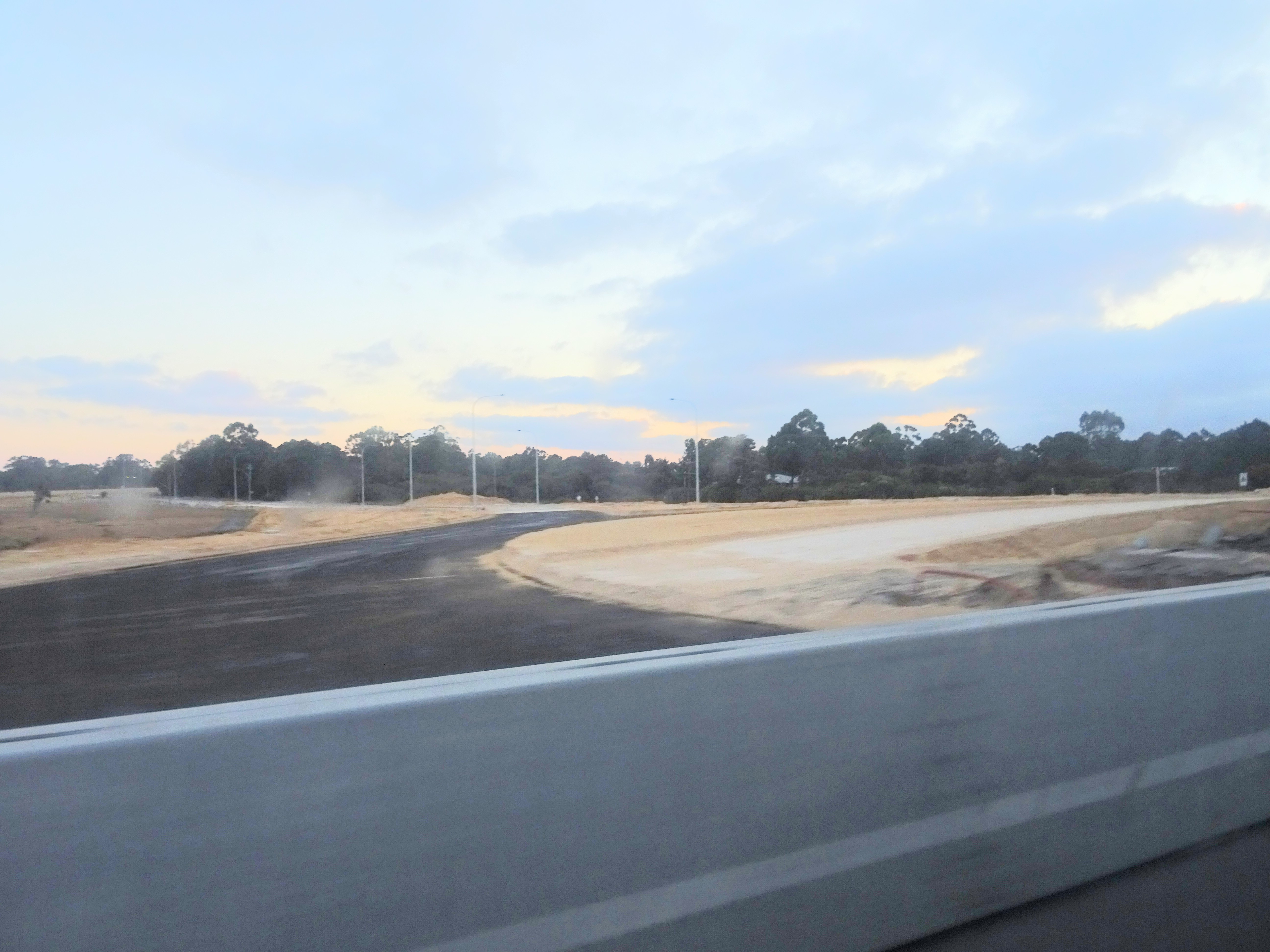 This is an image of the Armadale Road - Liddelow Road intersection upgrade being constructed in Banjup, Western Australia; as part of the Armadale Road Upgrade project. The image is taken looking south, while the vehicle is heading westbound on Armadale Road.